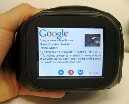 The Chumby running a widget that is displaying a Google News story, with human hand for size comparison.